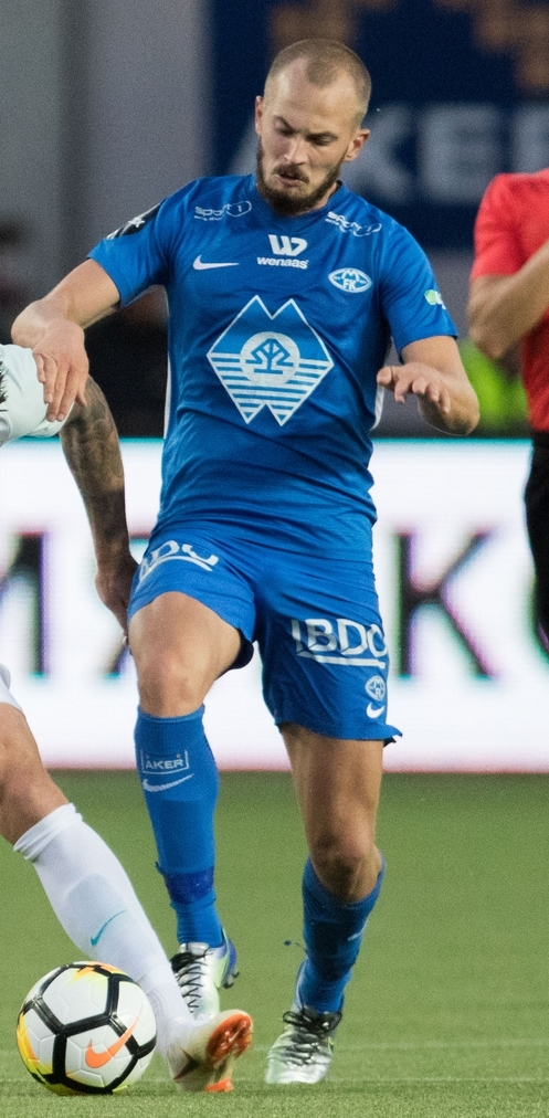 30.08.2018. Норвегия, Мольде, «Мольде». Лига Европы УЕФА 2018/19, раунд плей-офф, «Мольде» — «Зенит».